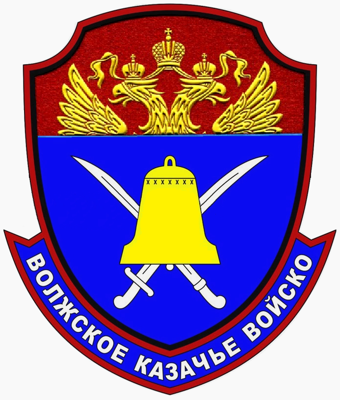 Волжское казачье войско (шеврон)